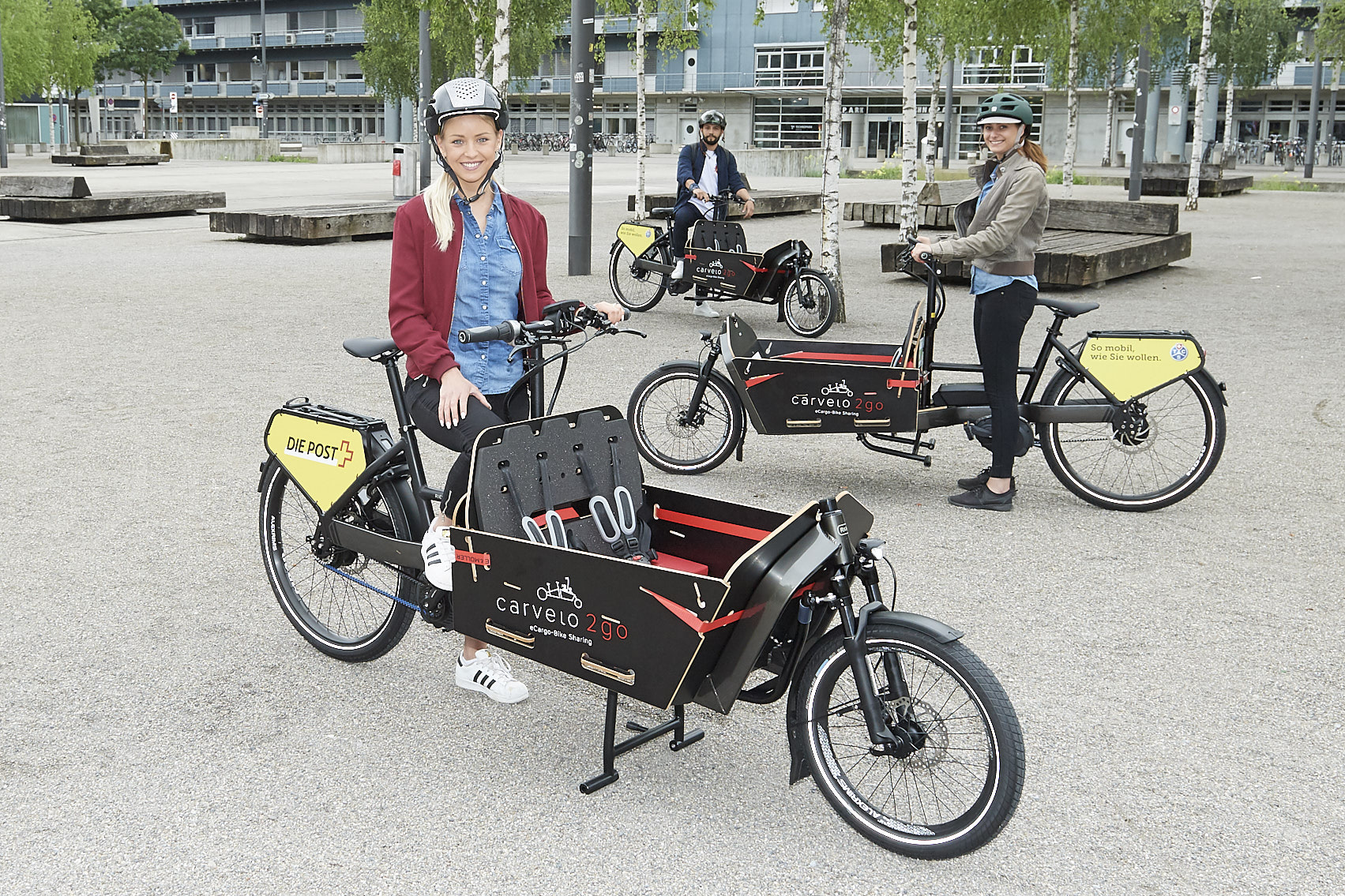 carvelo2go was launched in 2015 as part of the Swiss cargo bike initiative carvelo – which in turn is part of the TCS mobility academy – and the Engagement Migros development fund. The objective is to anchor the collective use of cargo bikes within the daily lives of the general public and integrate this into mobility networks.